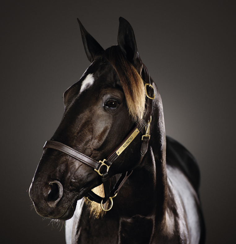 Nuncio 2016-12-19